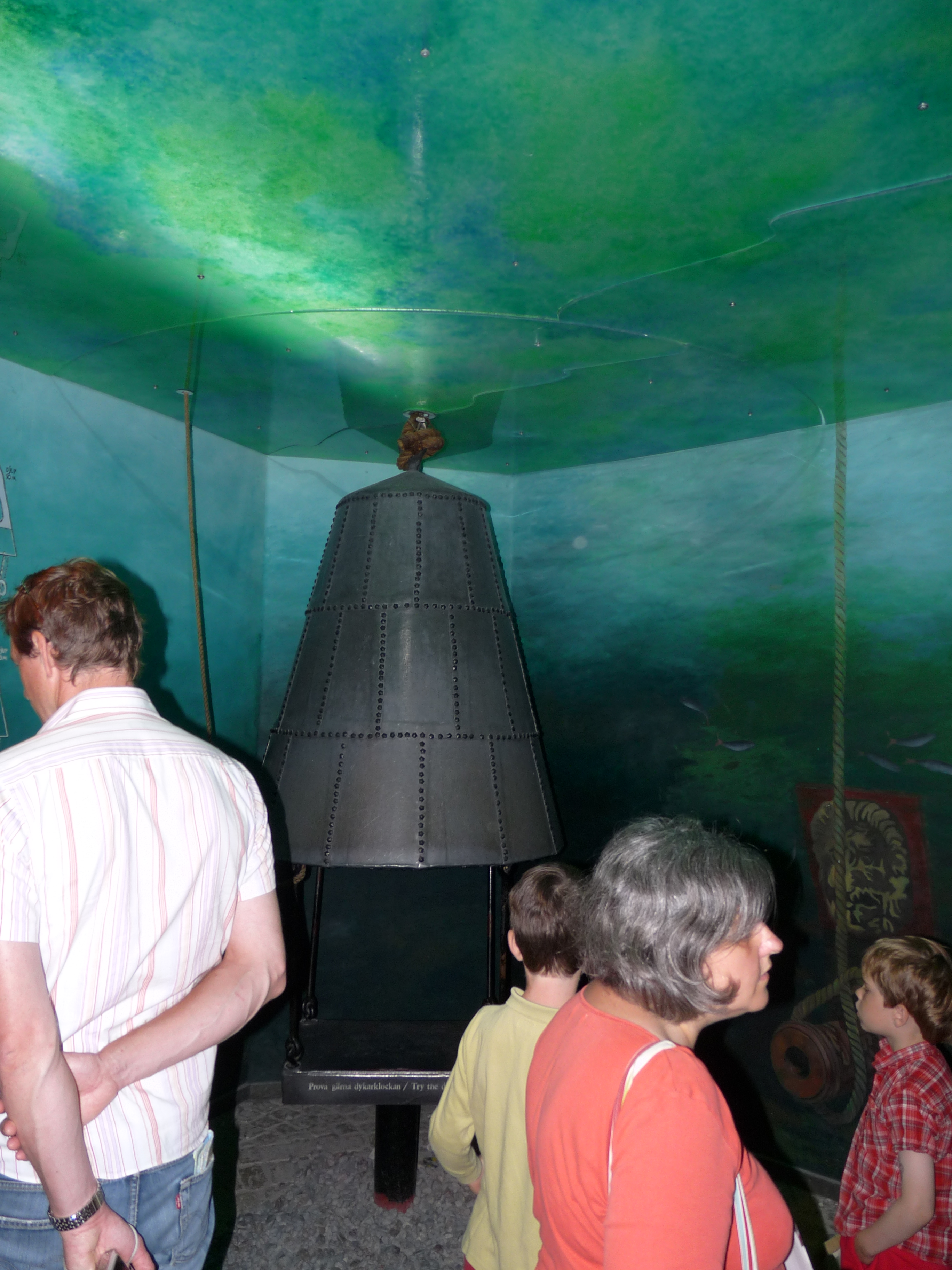 Metal cauldron in Vasa Museum